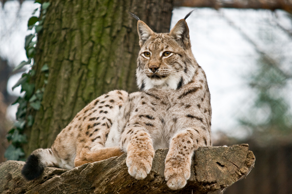 Euroazijski ris (Lynx lynx) u zagrebačkome zoološkom vrtu.